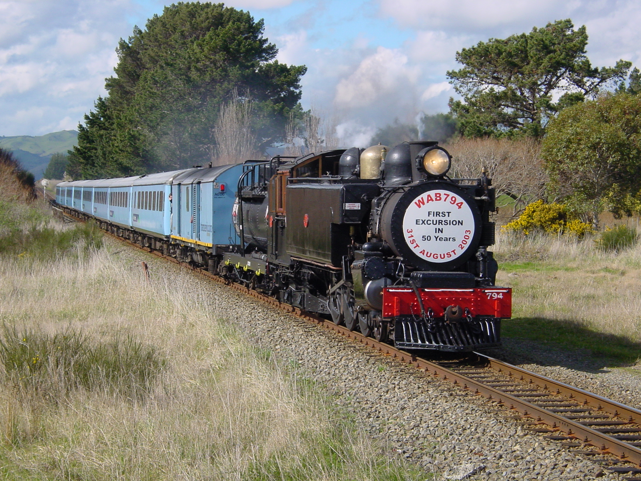 WAB 794 on excursion between Bunnythorpe and Palmerston North - 31 August 2003